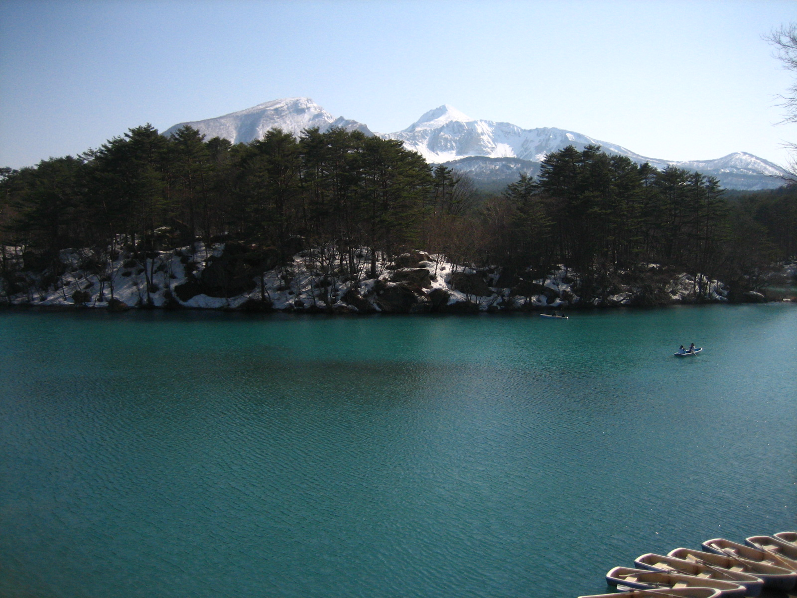 A picture of Bishamon-numa Pond, a volcanic lake in Fukushima, Japan, and one of the famed "Five Colored Lakes", with snow-capped Mount Bandai in the background. Image was taken with a Canon PowerShot SD450 Digital Elph camera and edited using a Paint Shop program on a laptop computer.